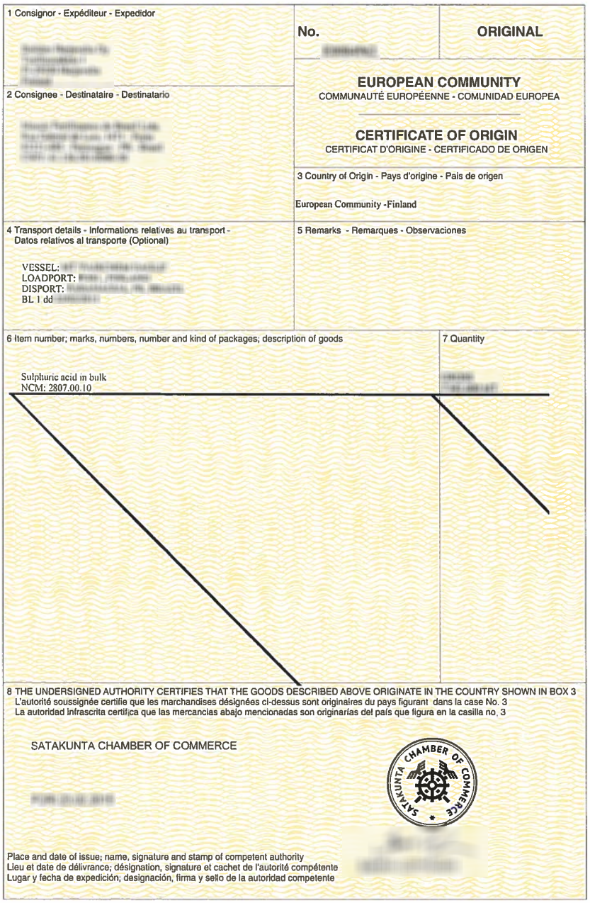 Certificate of origin (COO) dated 2015 - Finland (EU)